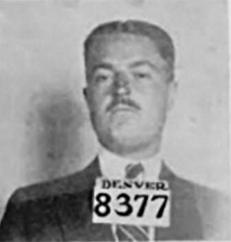 Booking photo taken in 1922 by the Denver Police Department